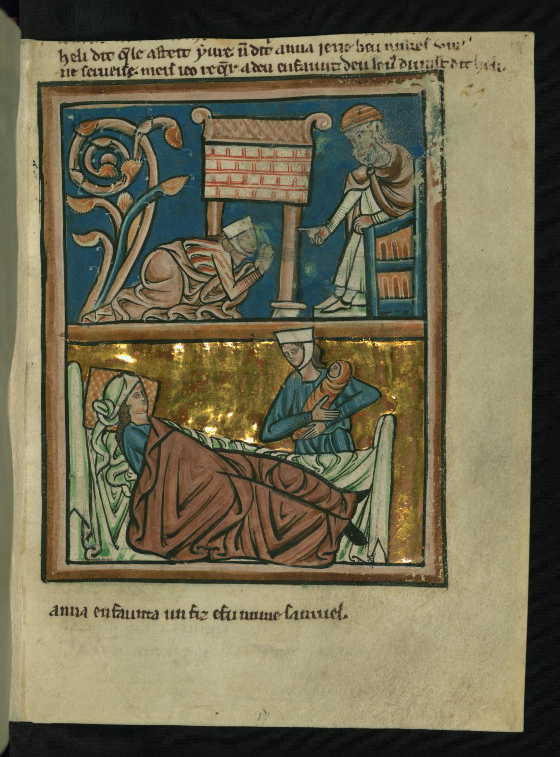 This page from Walters manuscript W.106 depicts two scenes from the story of Hannah. Top: Hannah, the barren wife of Elkanah, went to the temple, where the Ark of the Covenant was, and prayed to the Lord and wept bitterly. She vowed that if God gave her a son, then she would give him to God. Eli the priest saw her praying and thought that she was drunk. Bottom: In due time, Hannah conceived and bore a son, and she called him Samuel. Samuel was to crown David, King of Israel.